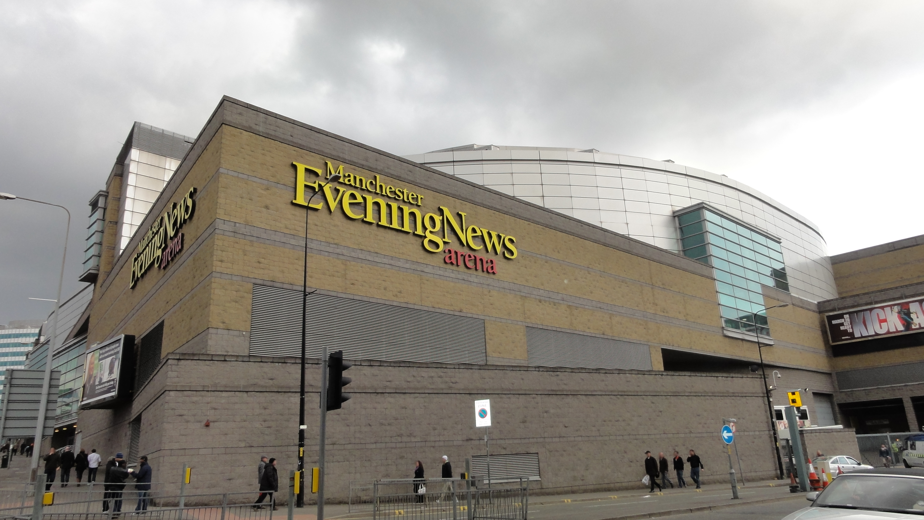 Outside the MEN Arena